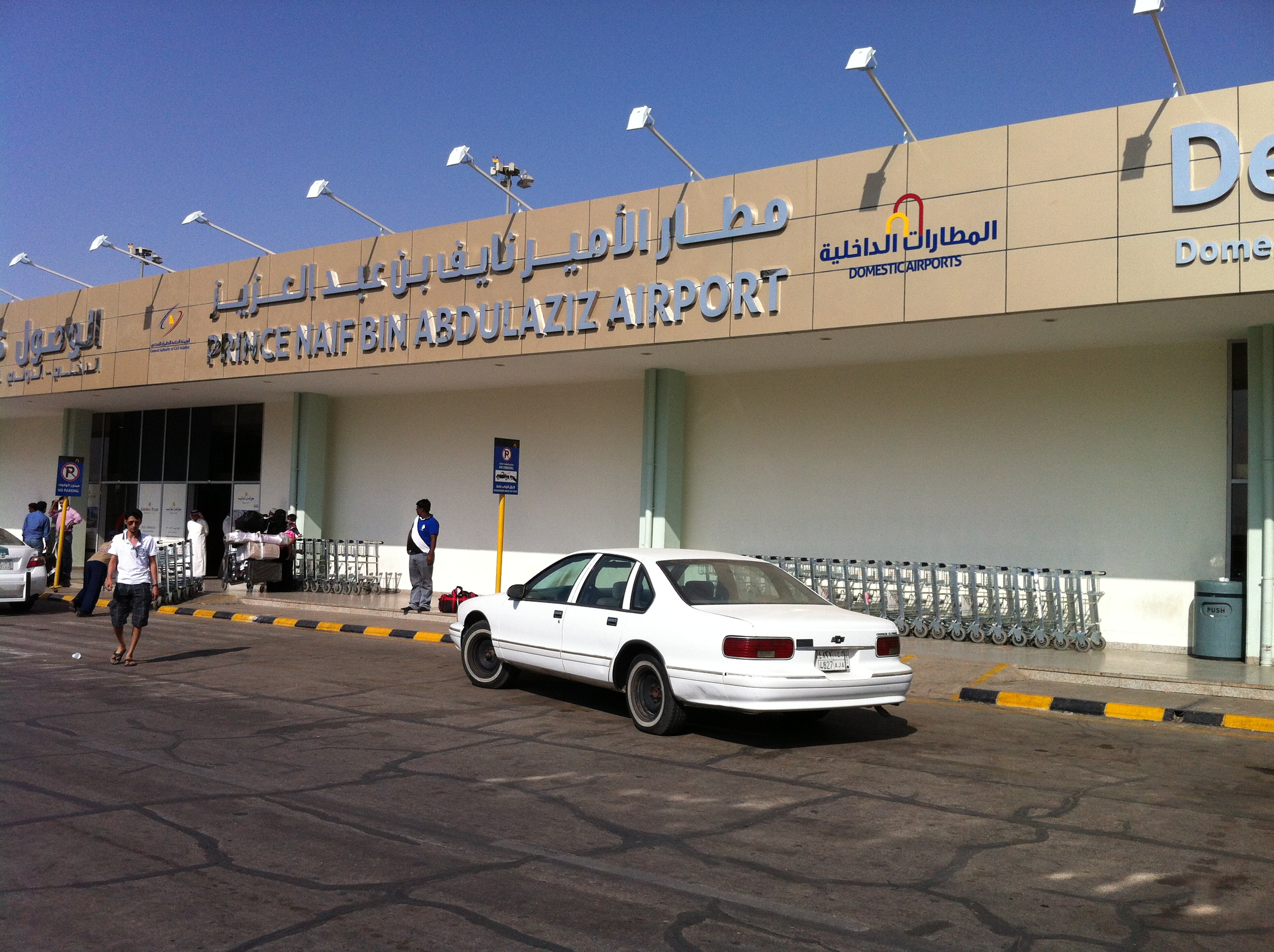 Prince Naif bin Abdulaziz Regional Airport